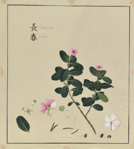 Painting of a rosy periwinkle (a Madagascar flower traded for its beauty), found in China in the 1770s. Painting created by John Bradby Blake and Mauk-Sow-U as part of an effort to create a "Compleat Chinensis," or an English record of Chinese plants. The original work is located at the Oak Spring Garden Foundation in Upperville, Virginia.